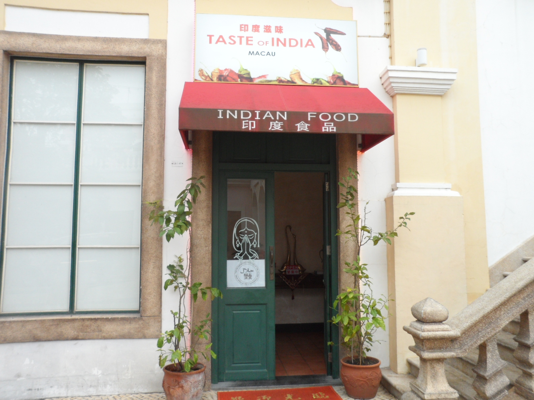 Taste of India, Macau Fisherman's Wharf, Freguesia da Sé, Macau, China